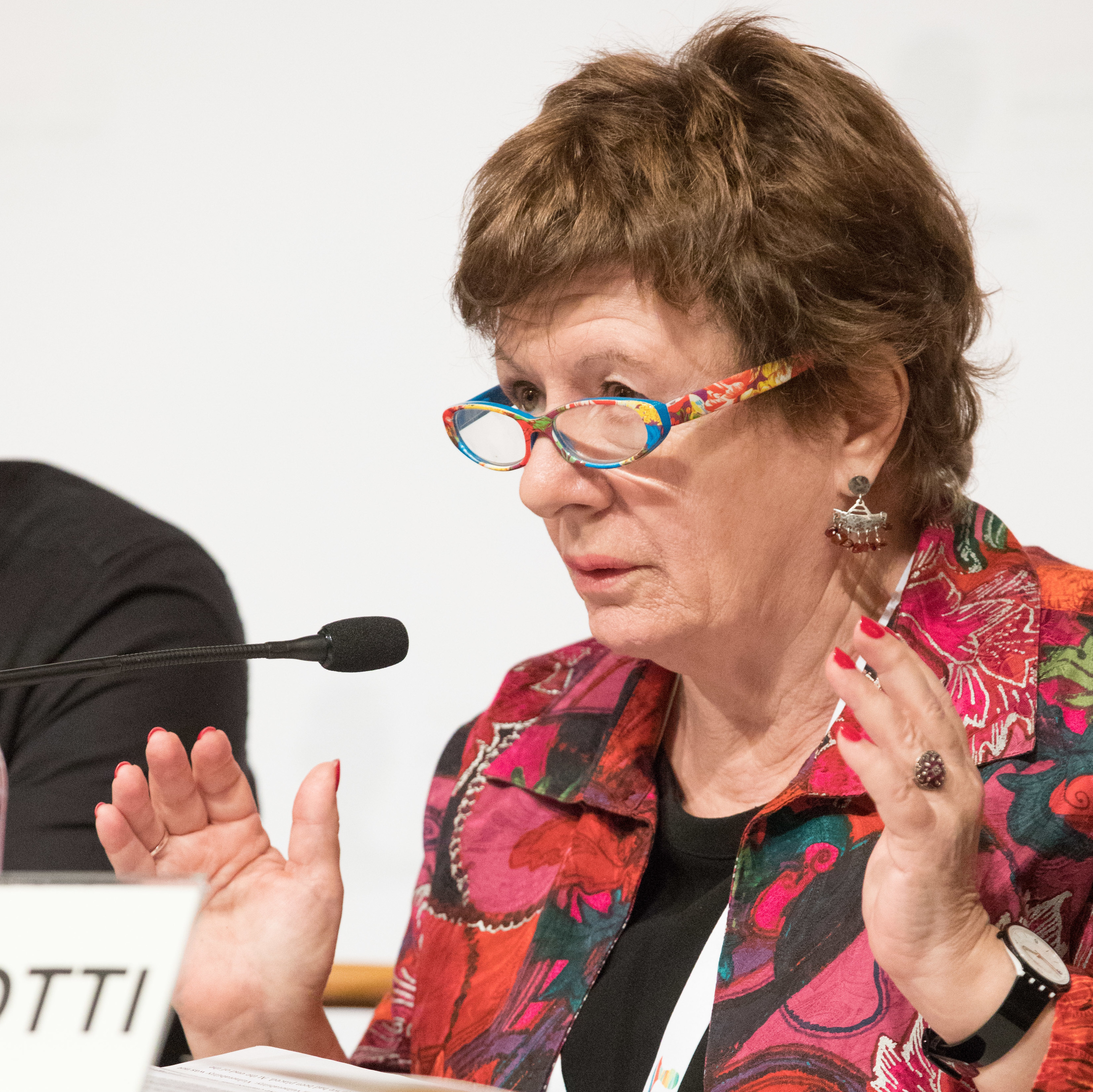 Susana Chiarotti: Vienna+25: Building Trust – Making Human Rights a Reality for All in the Austrian City Hall on 22 May 2018. (C) Rauchenberger.